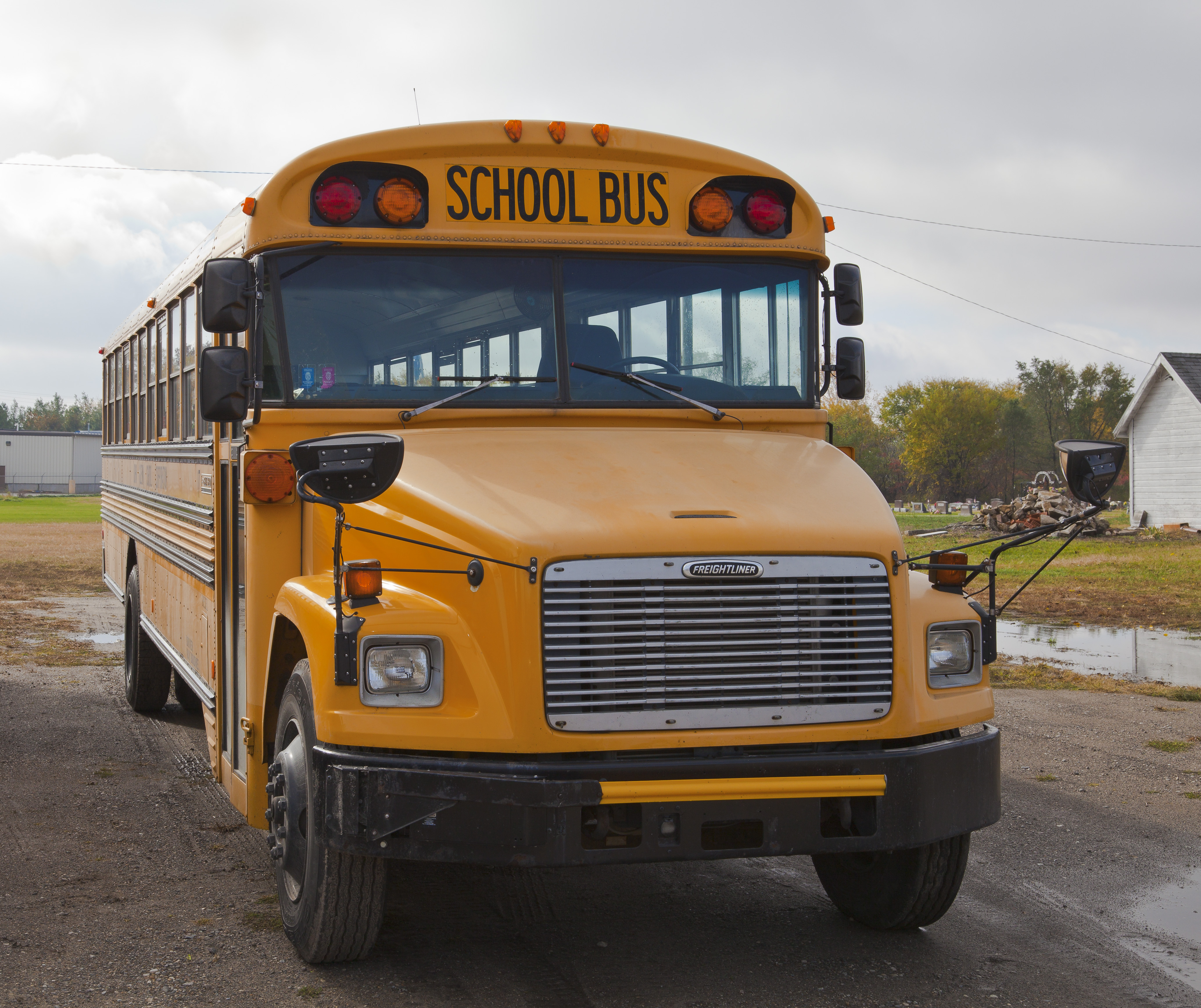 School bus, Walker, Indiana, USA